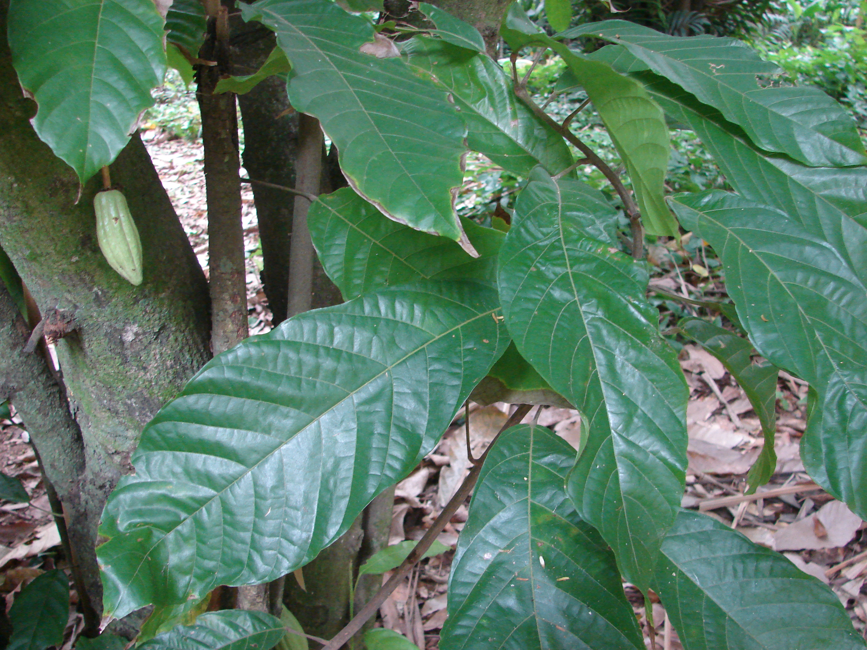 Cocoa tree (Theobroma cacao) leaves. Rio de Janeiro Botanical Garden